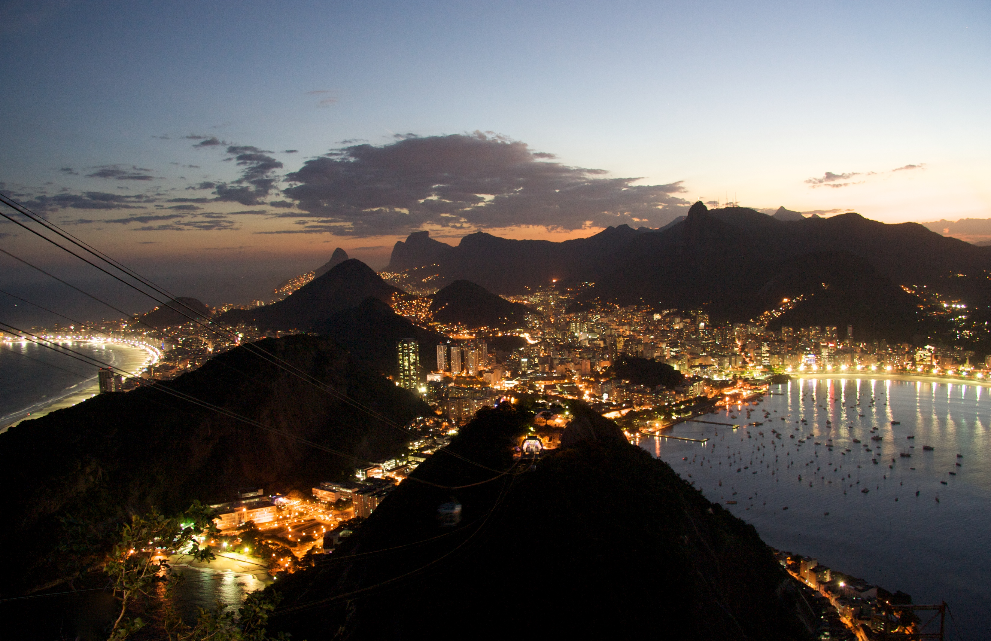 Rio de Janeiro's night skyline seen from the Sugarloaf.